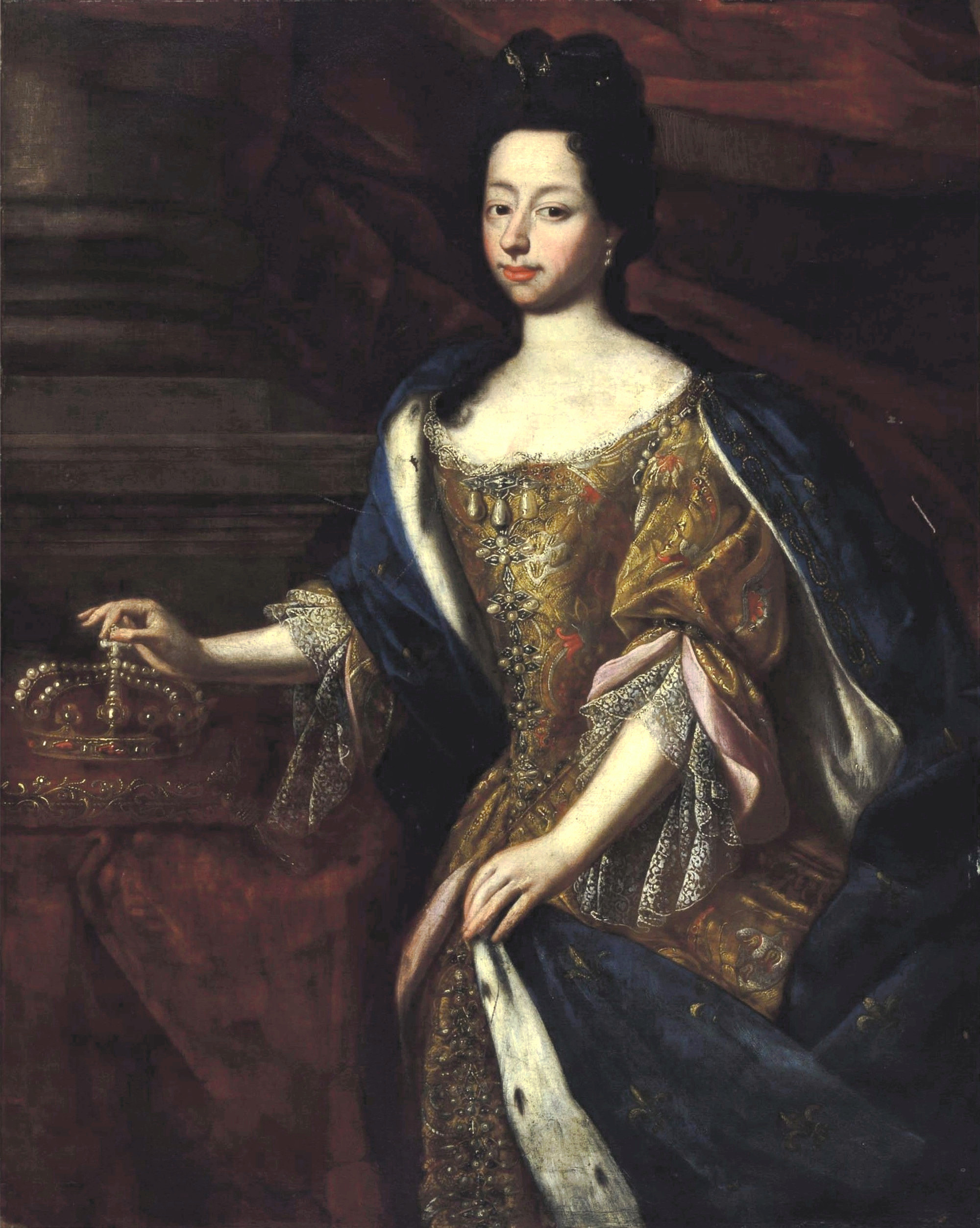 Portrait of Anne Marie d'Orléans (1669-1728), three-quarter-length